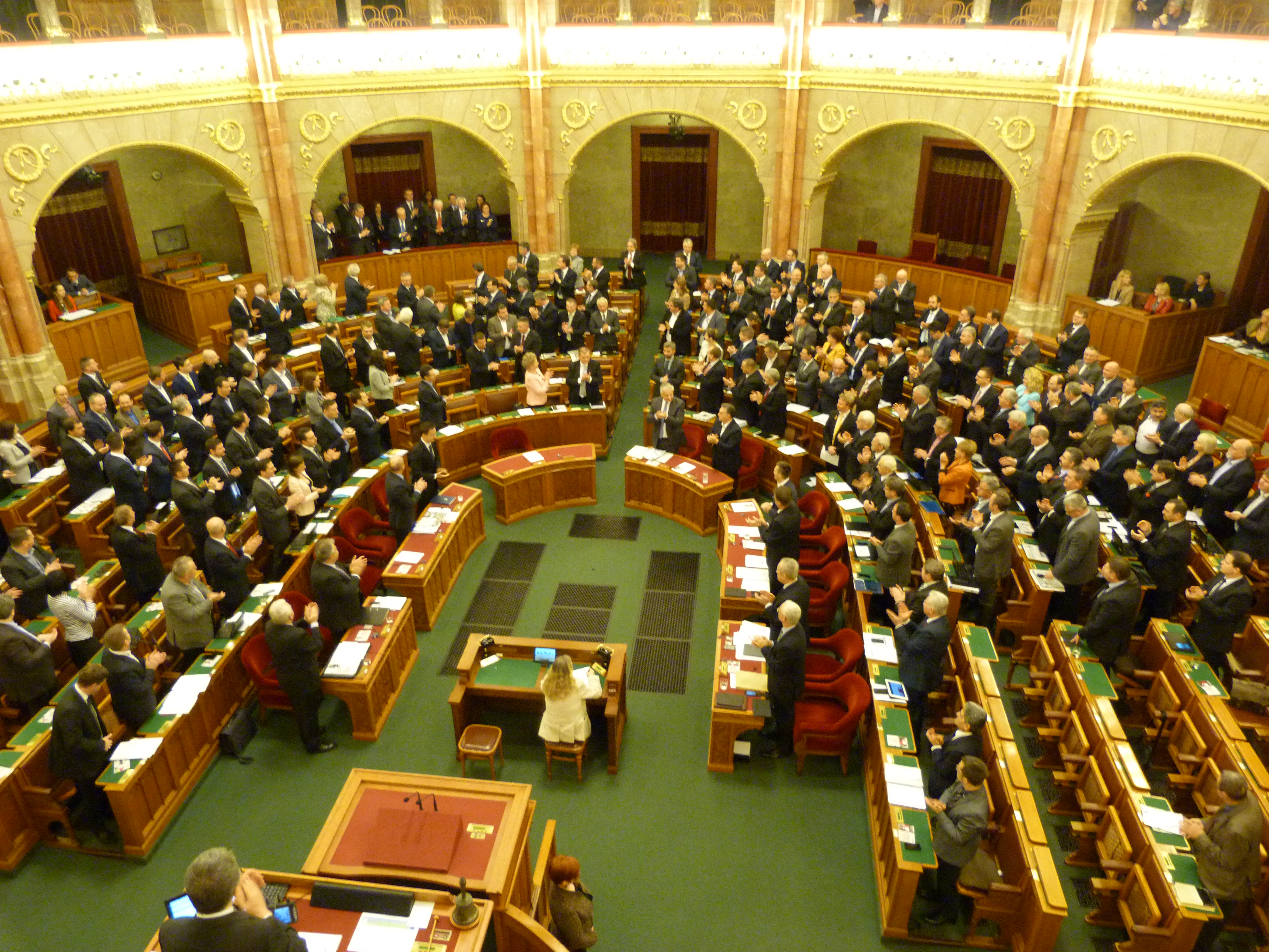 Taken on the 29th of February, 2016. 15:12:17 (Time stamp verified). The Hungarian Parliament passed into law: 2016 – the Year of the Hungarian – Polish Solidarity. To commemorate the memory of the Poznan uprising, June 1956 and the October 1956 uprising in Hungary. Standing ovation after voting. Ryszard Terlecki, vice president of the polish Parliament was present.Under the decree state celebrations will be organised throughout the year to mark the 60th anniversary of the anti-communist uprising in Poland’s Poznan in June 1956 and Hungary’s anti-Soviet revolution four months later. The decree was submitted by the house speaker, the speaker of the Polish national minority in Hungary and the group leaders of the five parliamentary parties. Read more at